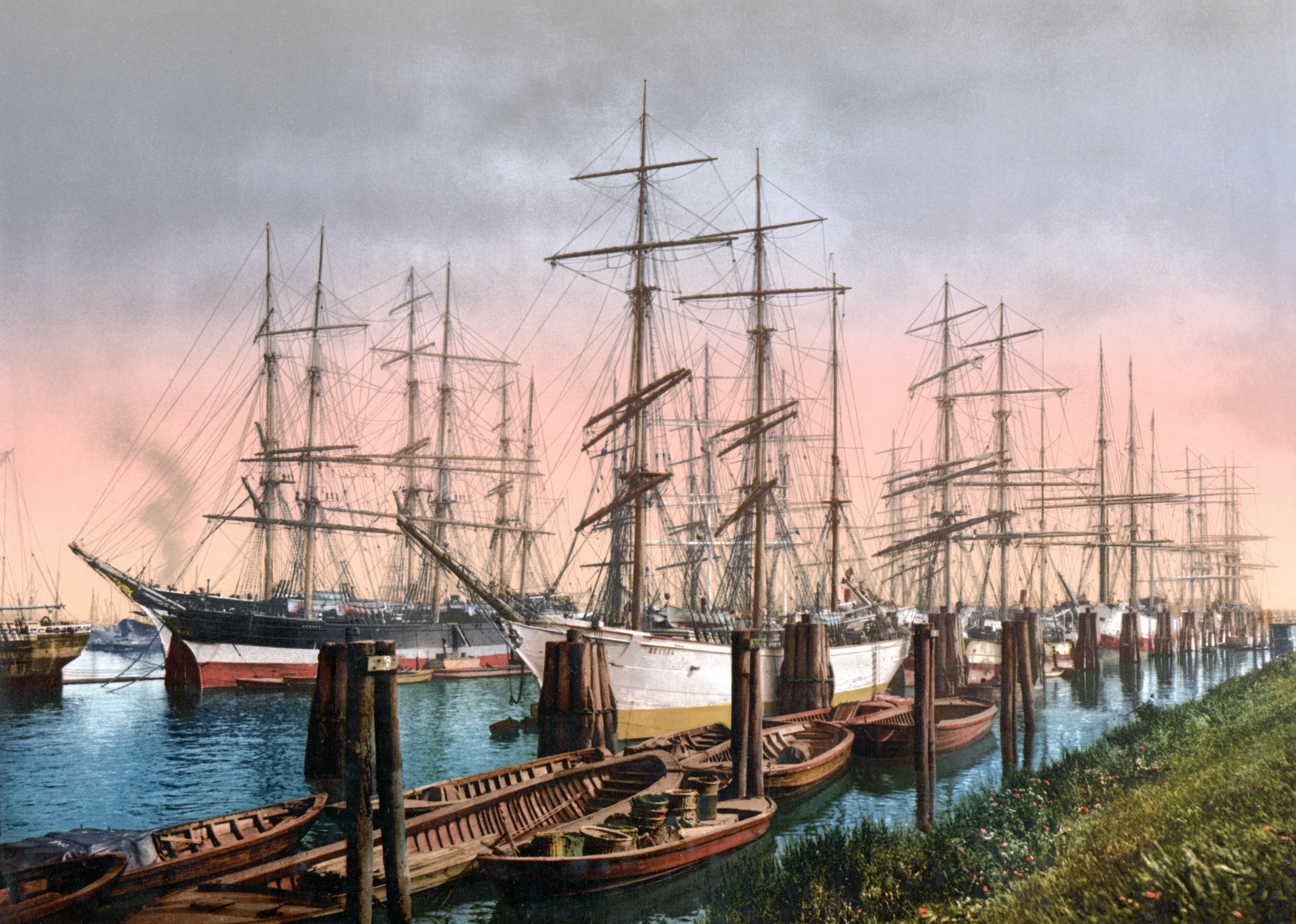 Port of Hamburg around 1900.